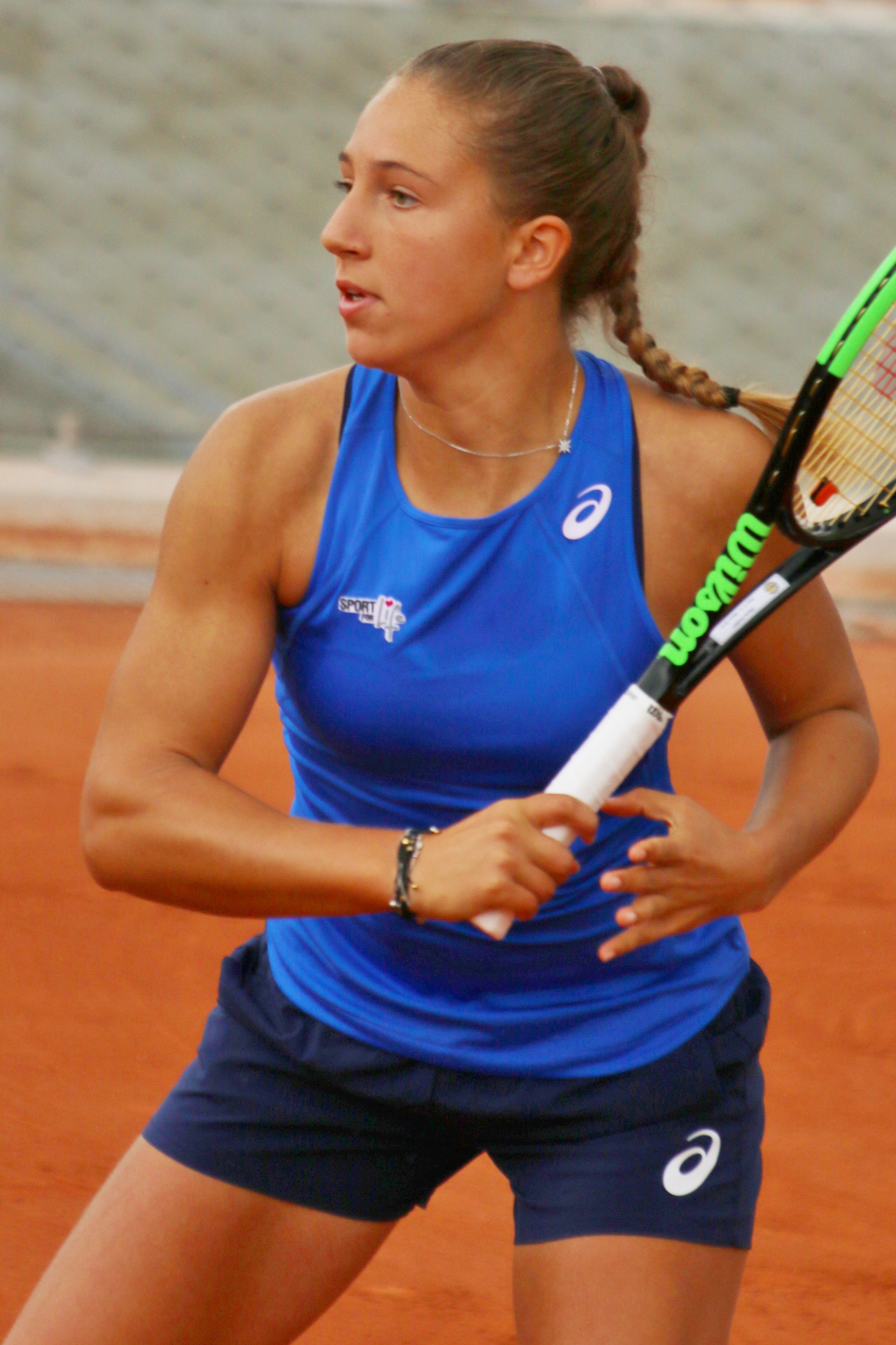 Parry RG19 (5)